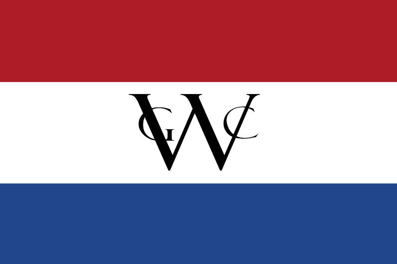 Flag of the Dutch West Indies Company.